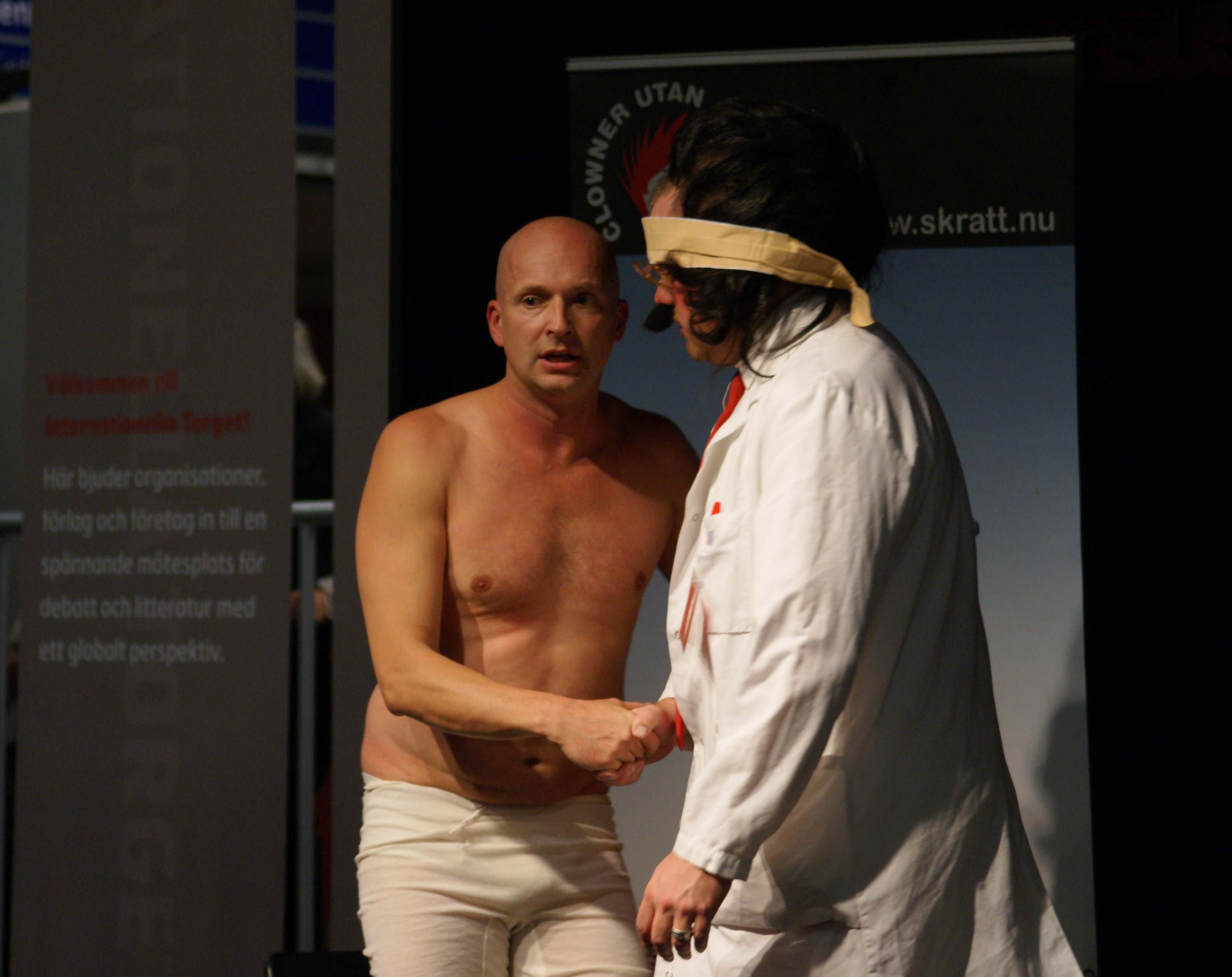 Clowner utan gränser at the Göteborg Book Fair 2011